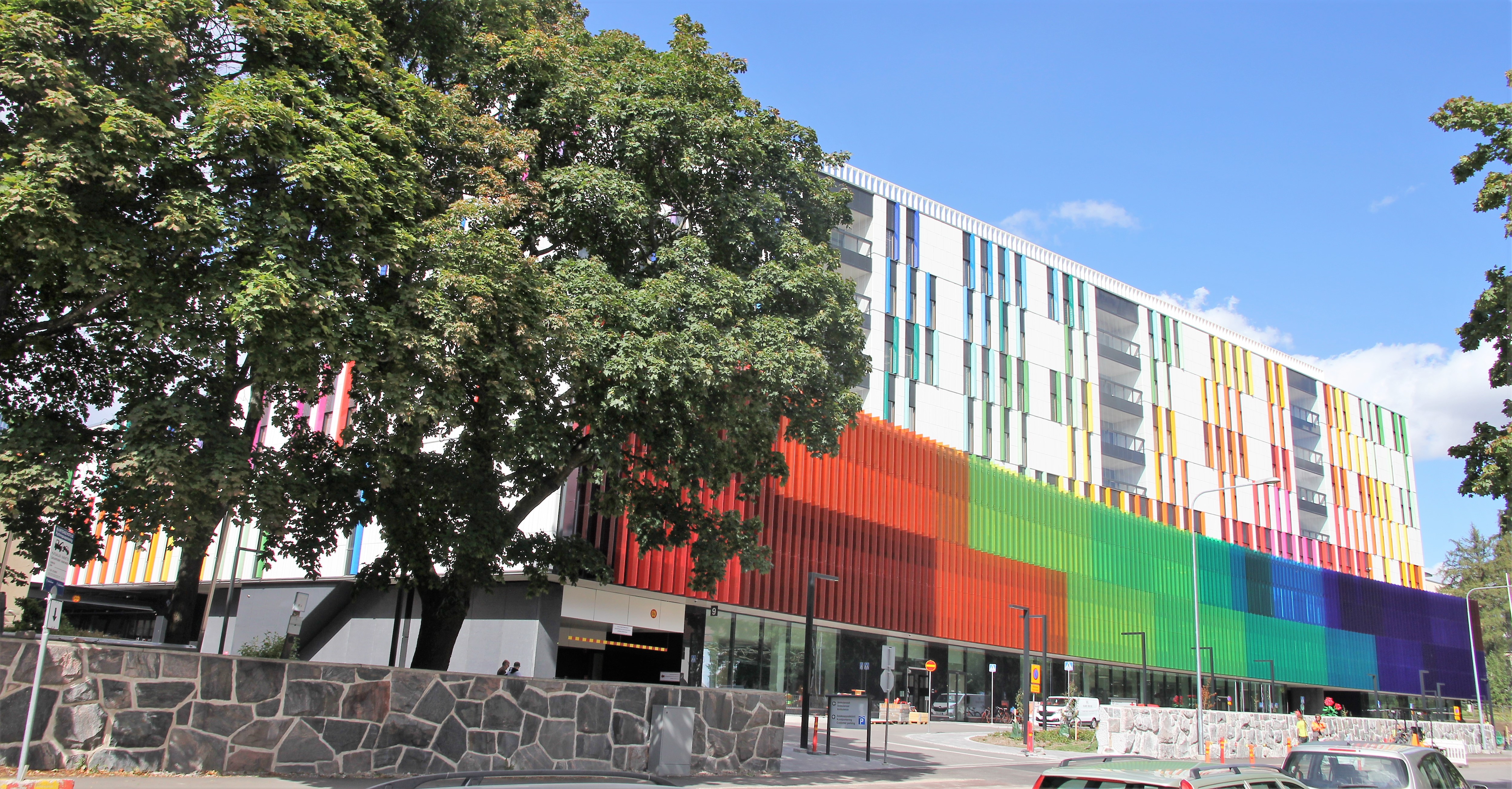 New Children's Hospital in Meilahti, Helsinki, Finland. Address: Stenbäckinkatu 9, Helsinki. Hospital goes operational in September 2018.